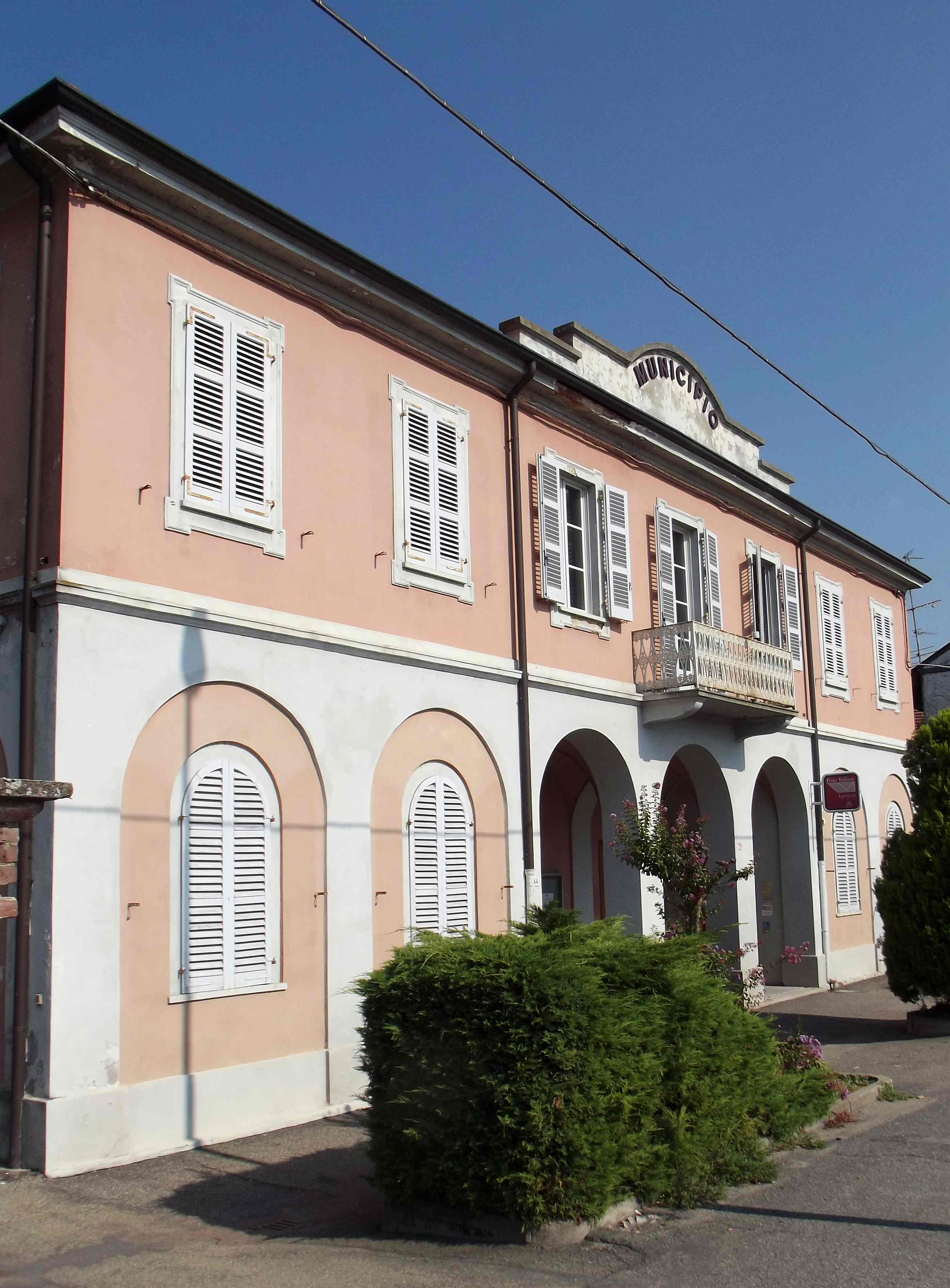 Caresanablot (VC, Italy): old town hall